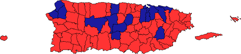 Puerto Rican general election, 1984 map.